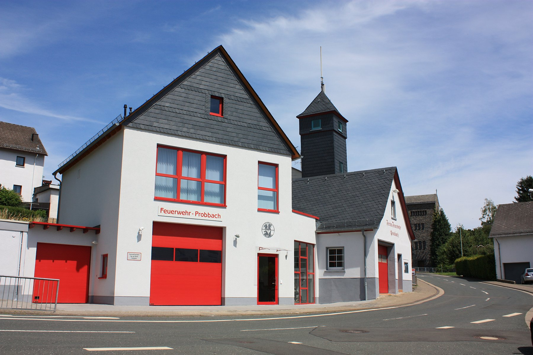 Fire Station in Probbach, Hesse, Germany